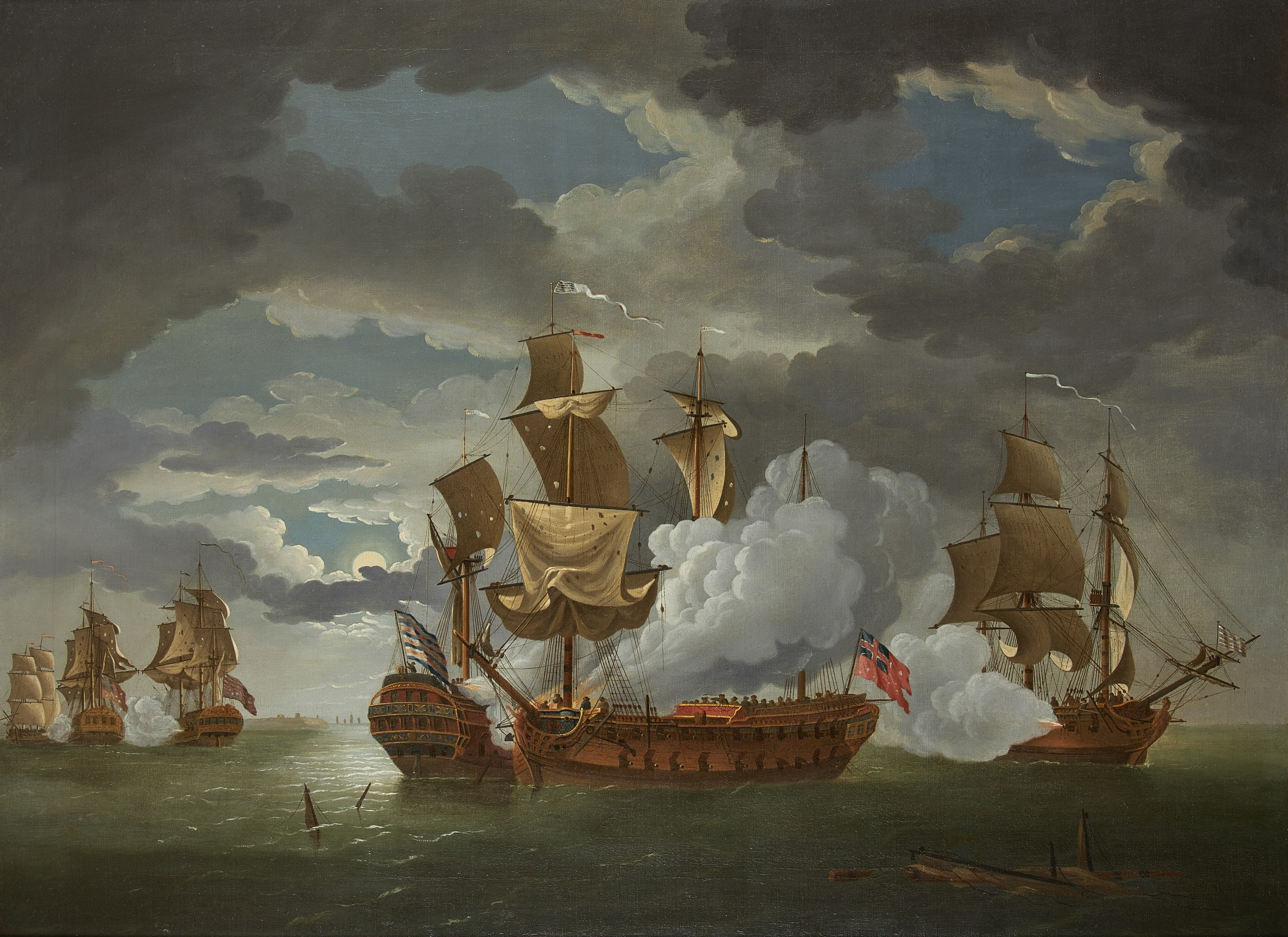 The Action Between the Frigates Bonhomme Richard (Capt John Paul Jones) And HMS Serapis, During The Battle Of Flamborough Head, 1779. The Alliance fires on the combatants. oil on canvas 34 x 46 in. (86.3 x 116.8 cm) Exhibited: Royal Academy, 1780, number 314, titled: ‘The action between the Serapis, capt. Pearson, the Countess of Scarborough, and Paul Jones’s Squadron. R.Paton.'